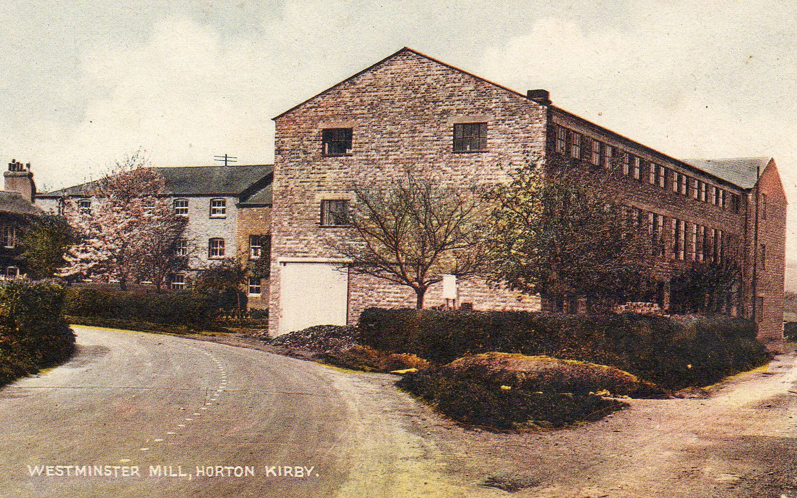 Westminster Mill, Horton Kirby. Postcard unused but c1910s in date.